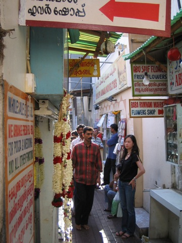 Street and shop signs in English and Malayalam in Dubai